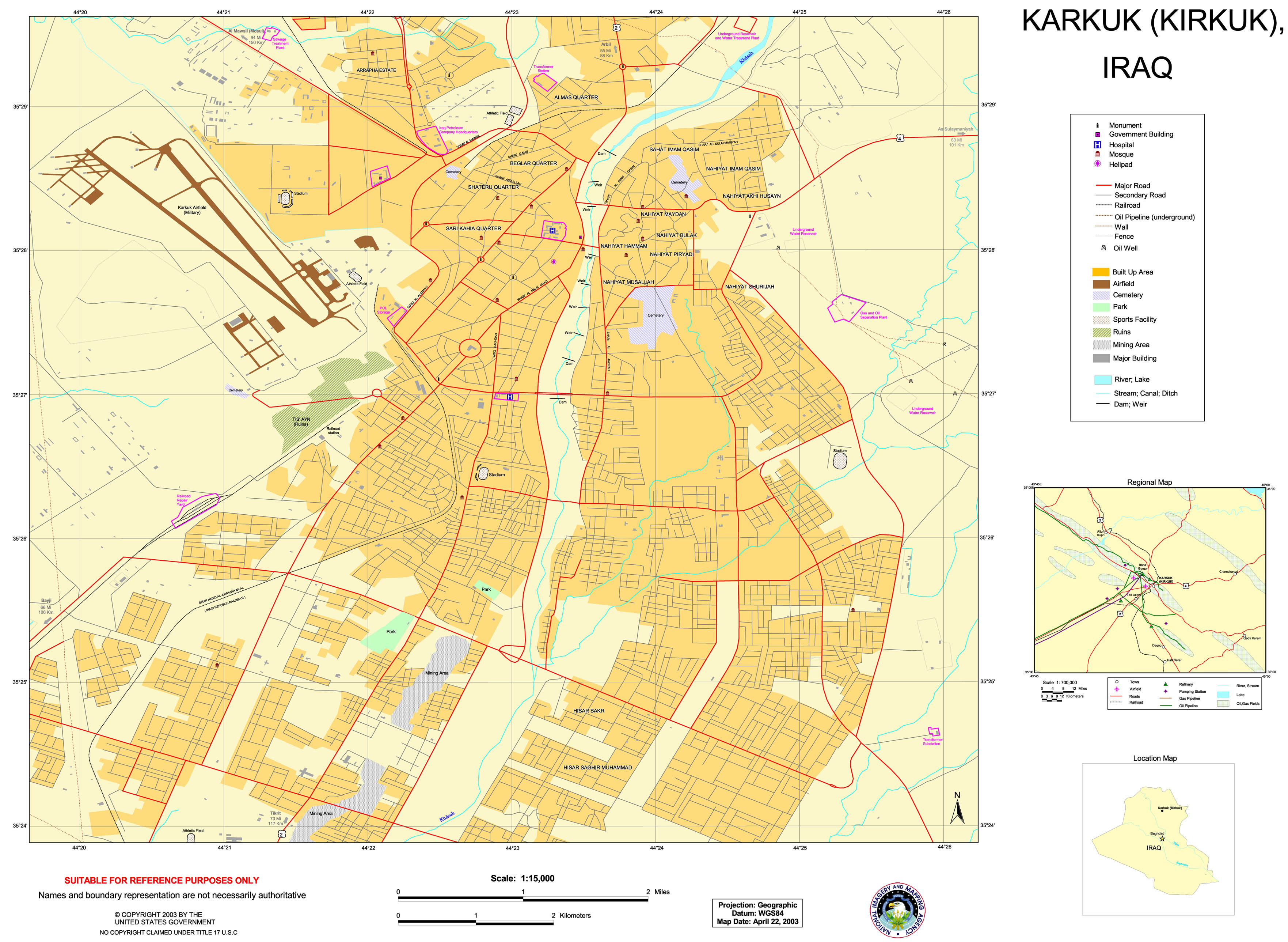 Map of Kirkuk, Iraq, 2003.[1].